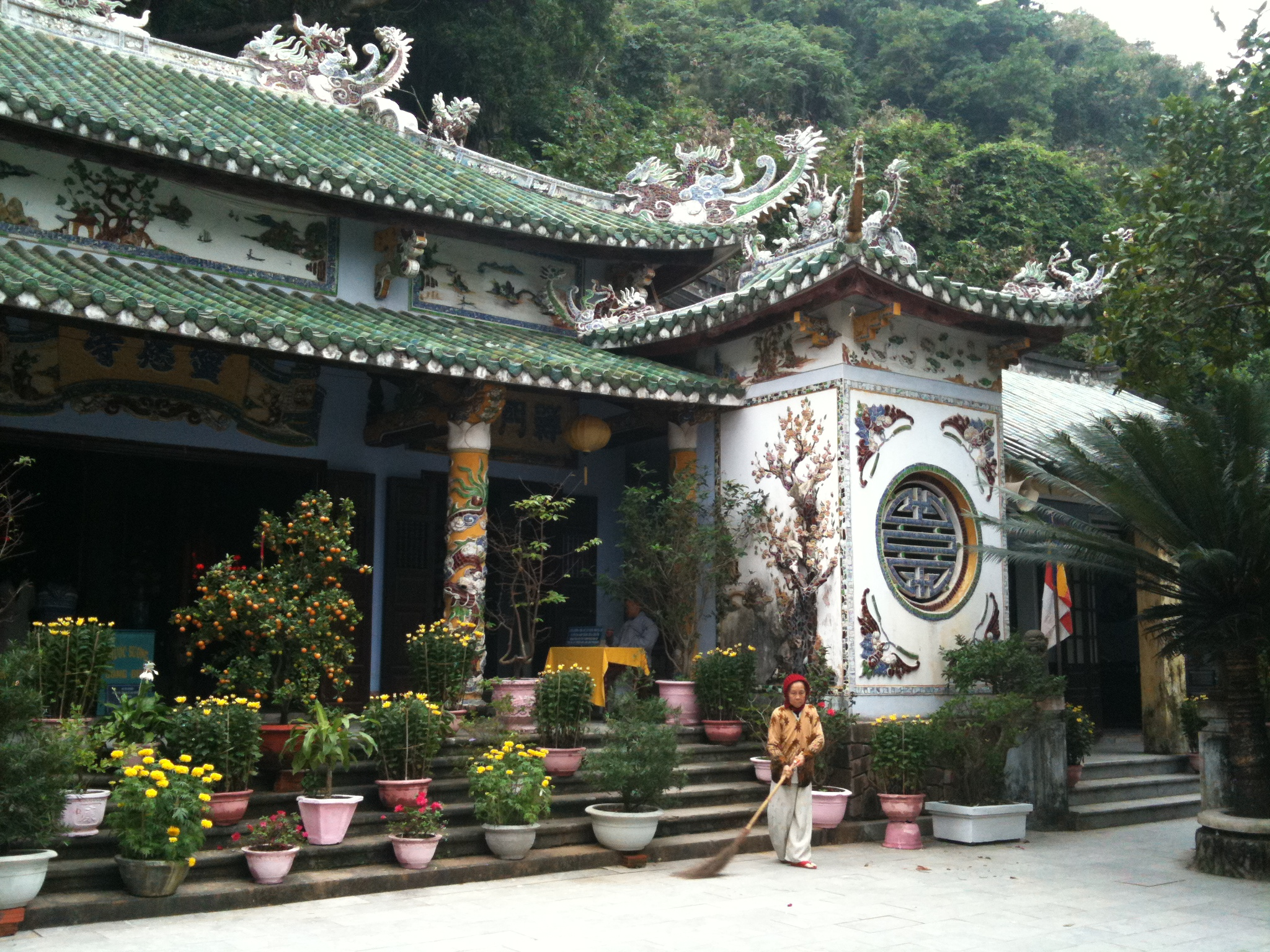 Really big pagoda in the Marble Mountains, Da Nang, Vietnam.